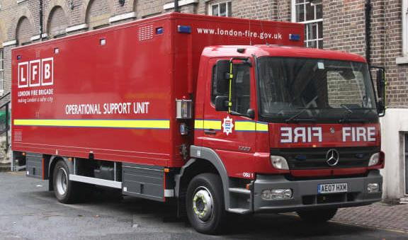 A new London Fire Brigade operational support unit, with "FIRE" in mirror writing ("ERIF").